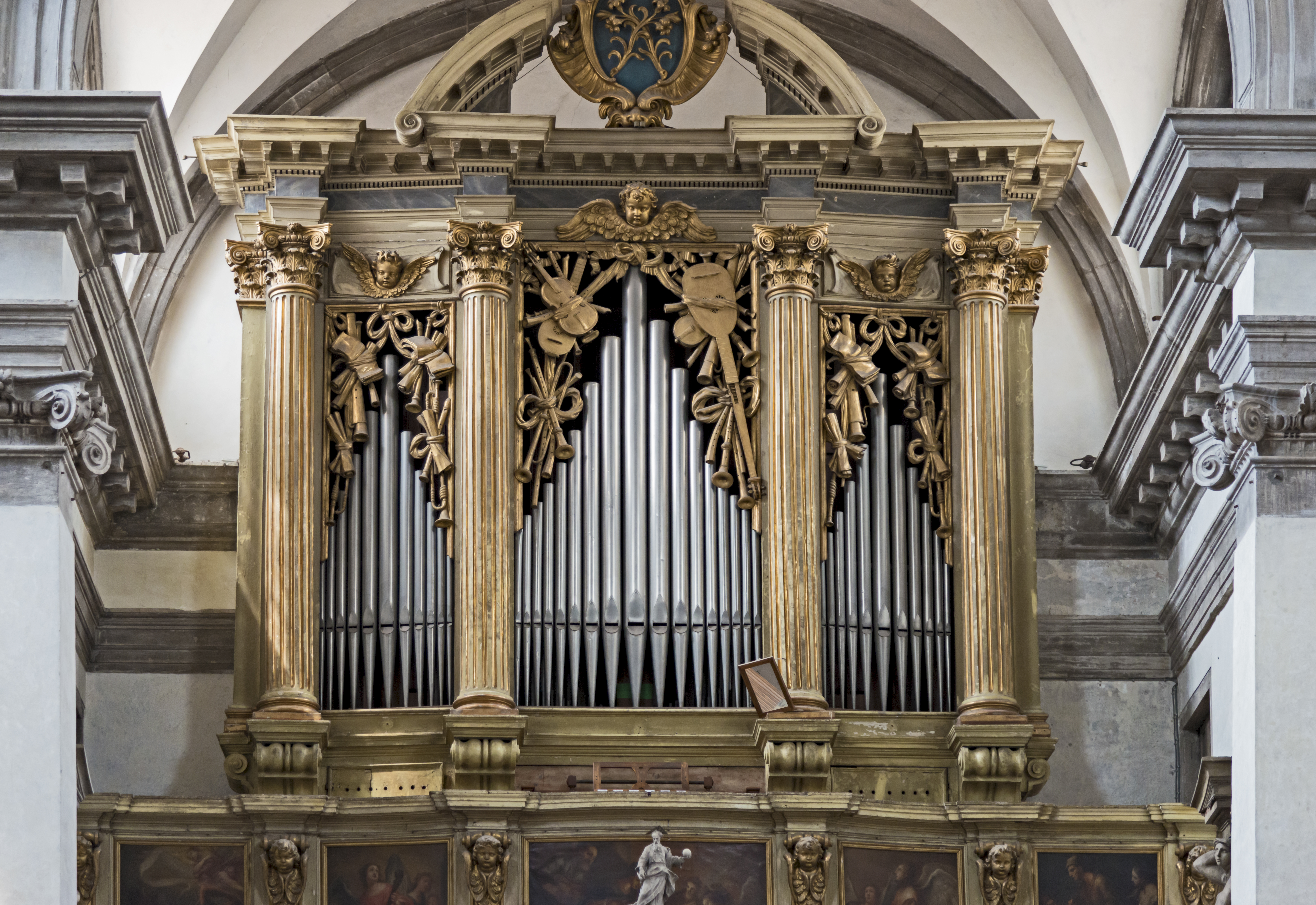 Church Santa Maria del Giglio in Venice. Organ (Mascioni 1914) Opus 320.